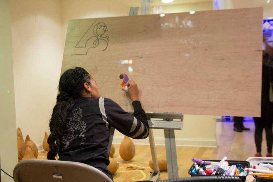 Caron Bowman painting on wood